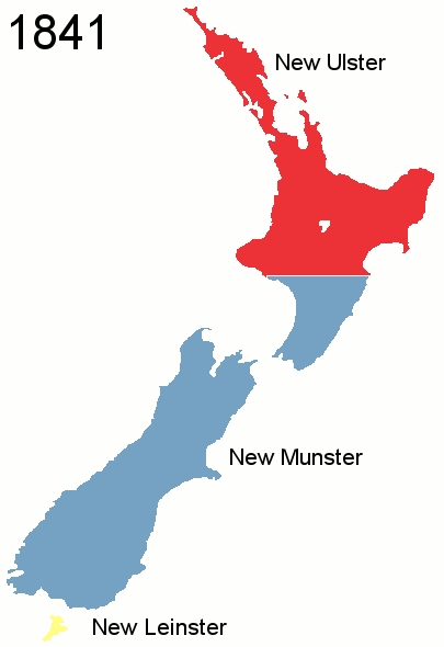 The Provinces of the Colony of New Zealand, as they were originally established, in 1841, with the creation of the colony.